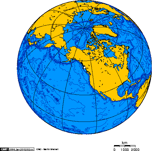 Orthographic projection centred over Prince Rupert.